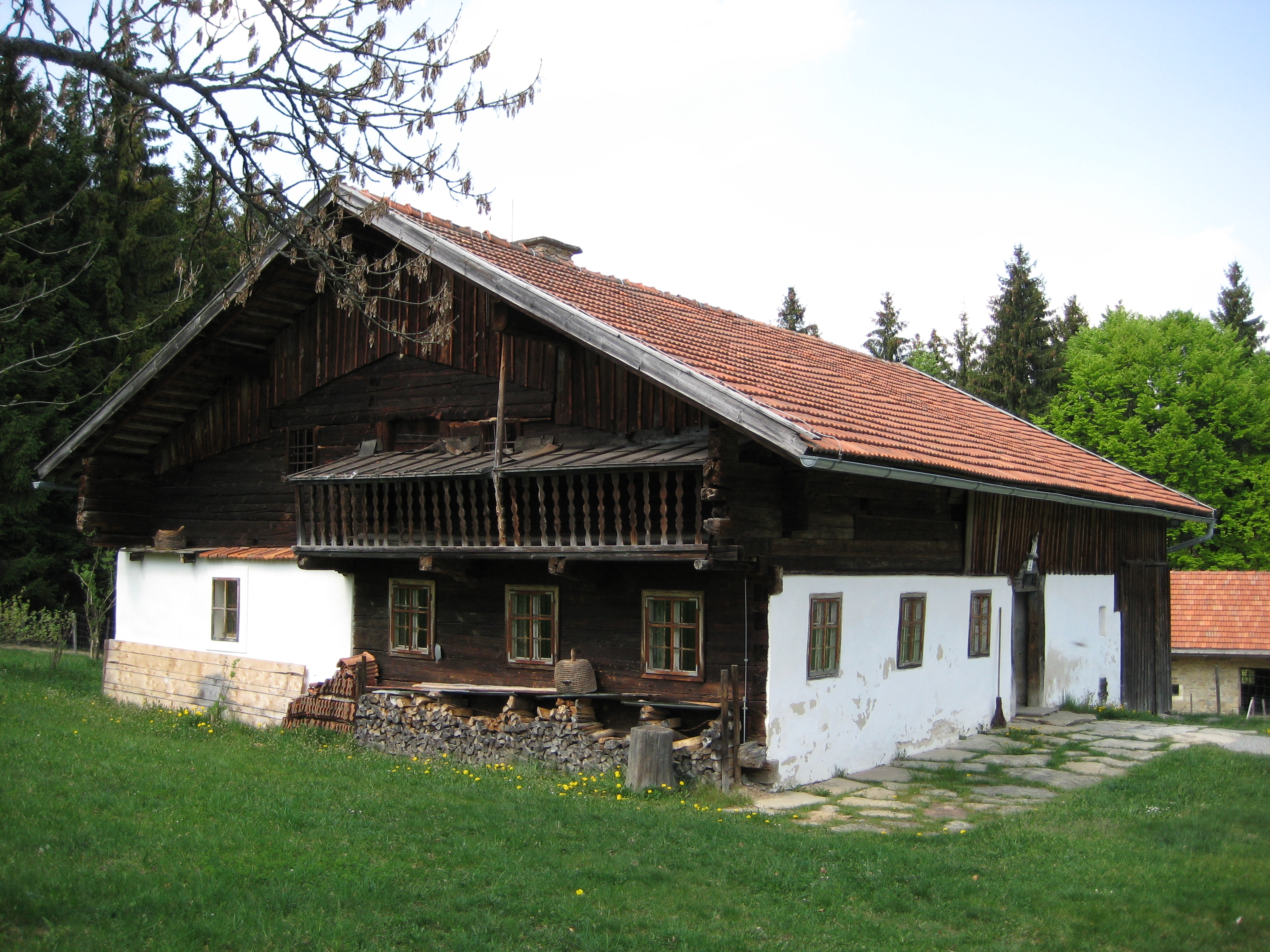 Country life museum Finsterau, Bavarian Forest